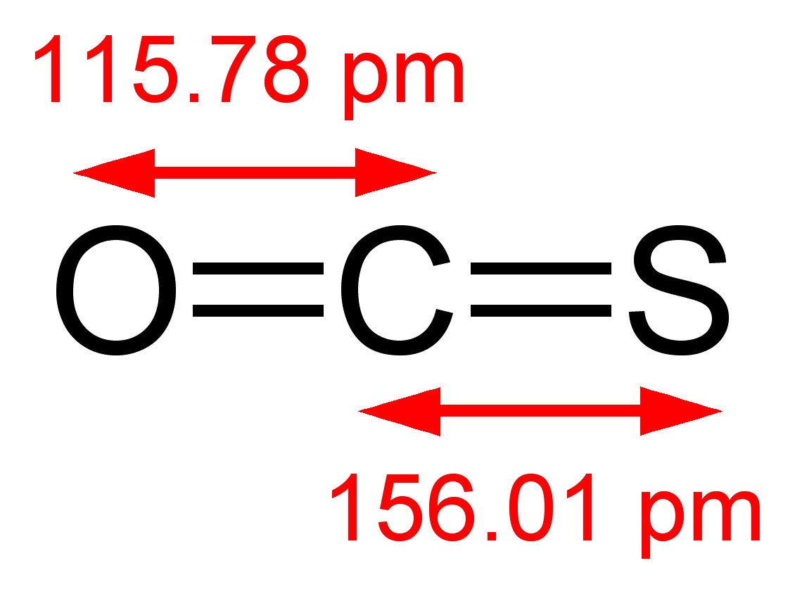 Structure of the carbon disulfide molecule, OCS, with the C=S bond length of 1.5601 Å and the C=O bond length of 1.1578 Å. Data from CRC Handbook of Chemistry and Physics, 88th edition.